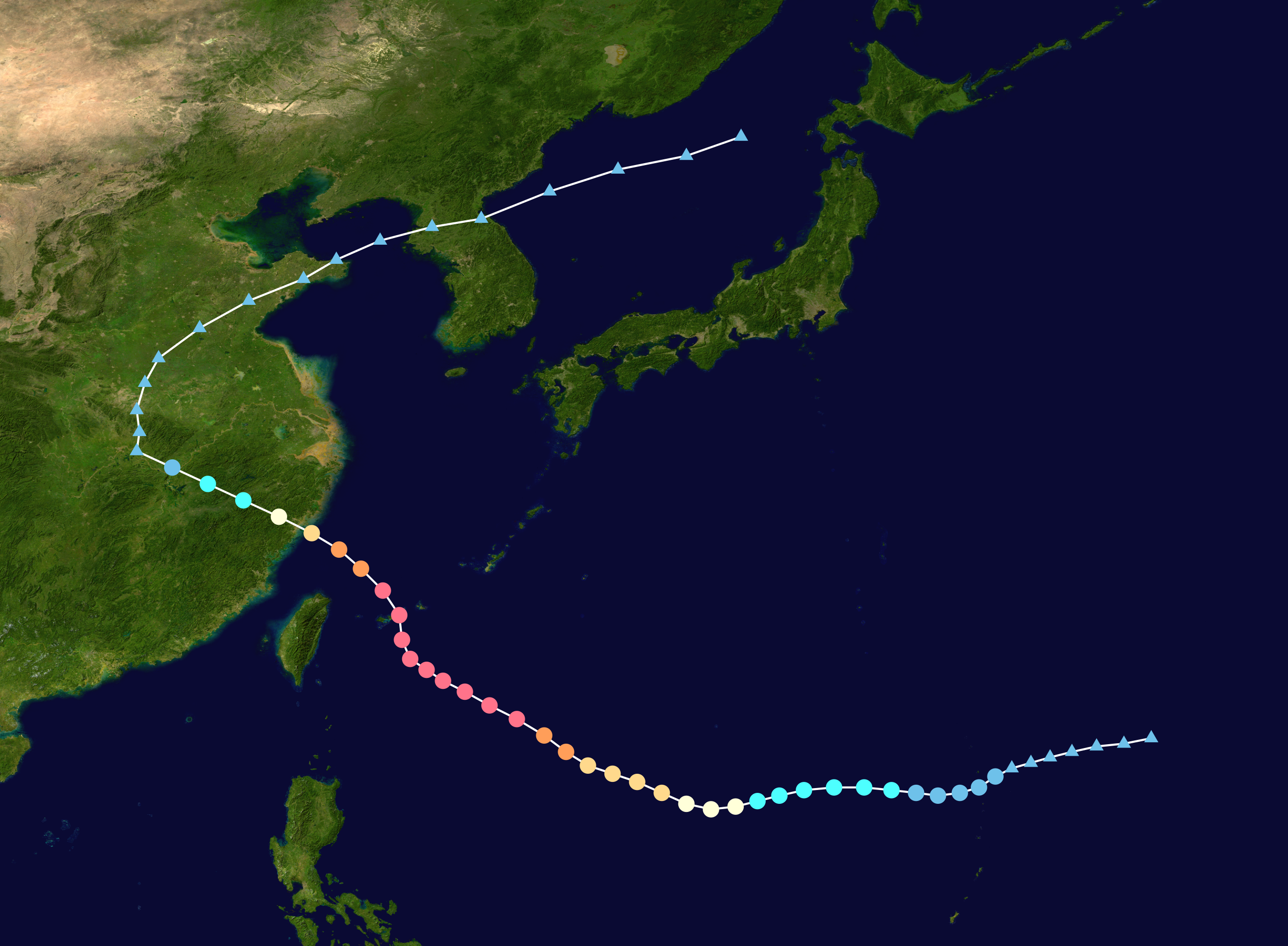 Typhoon Fred 1994 track. Uses the color scheme from the Saffir-Simpson Hurricane Scale.